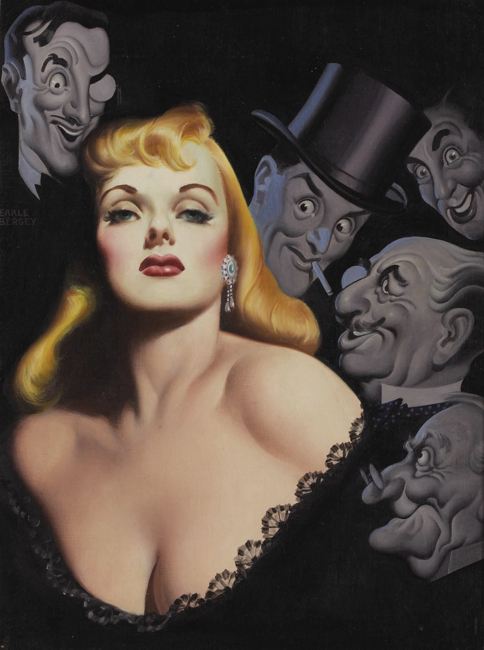 The original painting, oil on board, conceived and produced by the American pulp artist, Earle K. Bergey, 1901-1952.